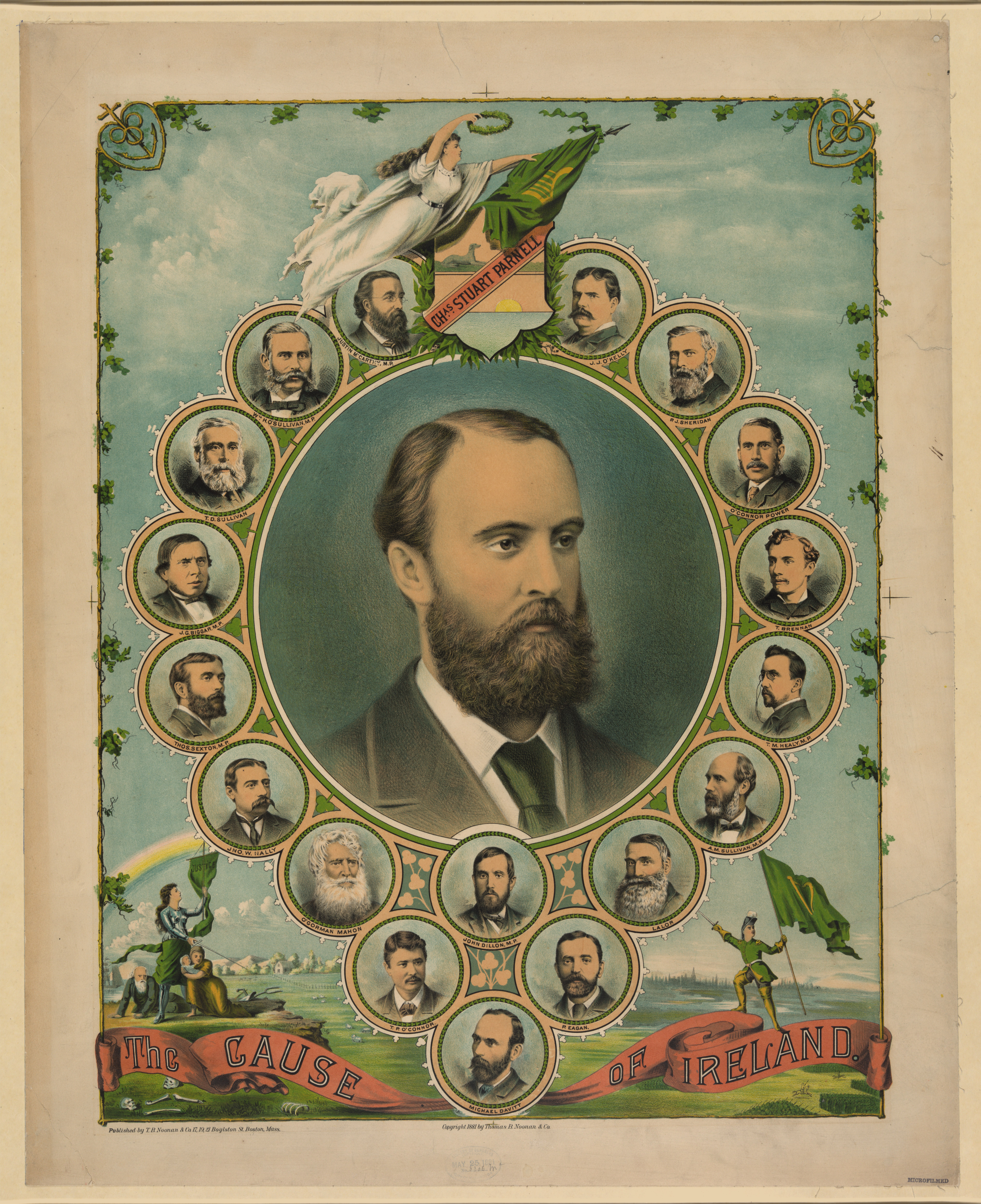 Title: The cause of Ireland Abstract: Print shows large bust portrait of Charles Stewart Parnell encircled by 18 smaller portraits of men prominent in Irish politics and government. Physical description: 1 print : lithograph. Notes: Copyright 1881 by Thomas B. Noonan & Co.; Title from item.